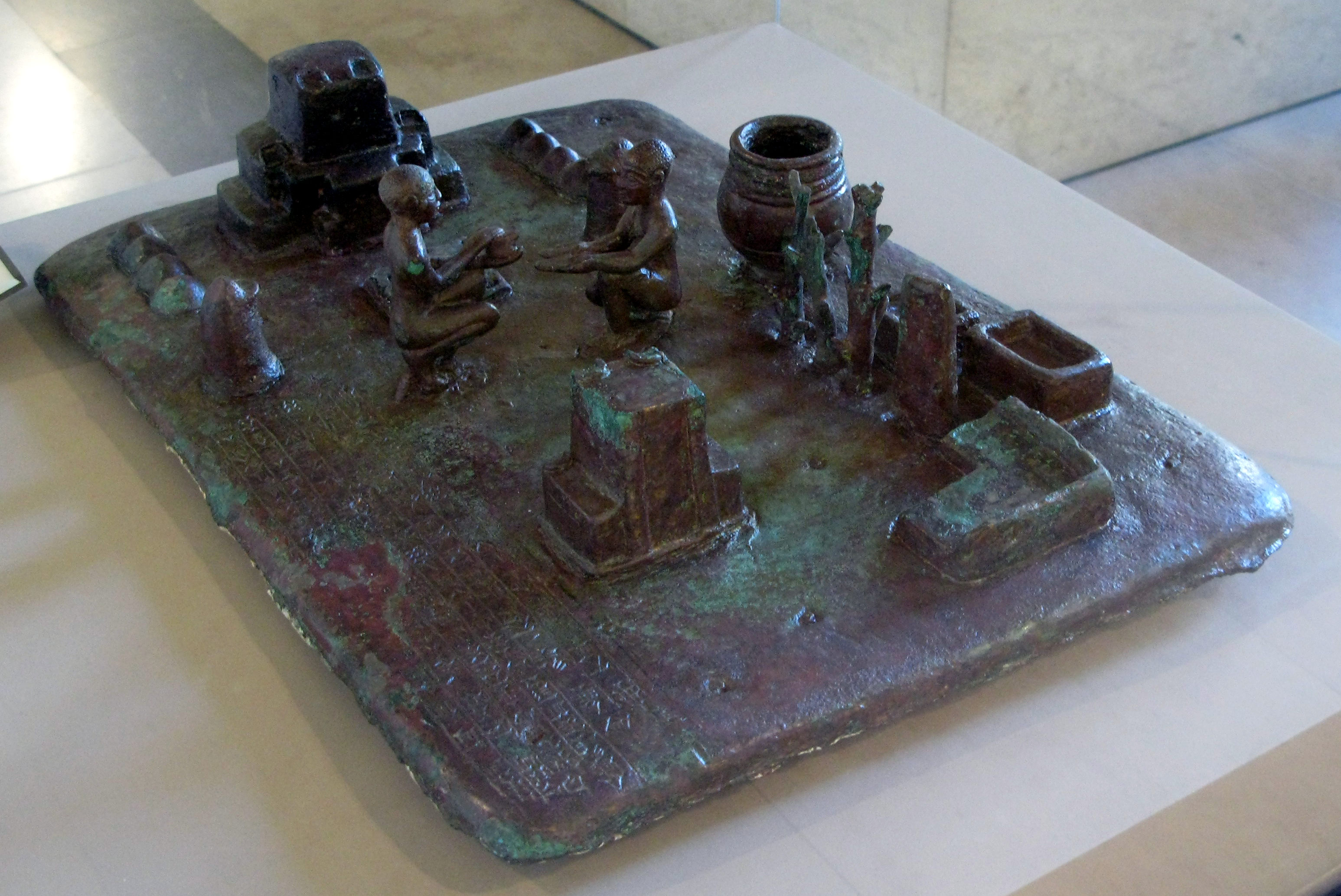 ArtistUnknownDescription Model of temple, also named Sit-shamshi (ceremony of the rising of the sun) [1] 12th century BC Susa Bronze Elamite inscription: "I, Shilhak-Inshushinak, son of Shutruk-Nahhunte, beloved servant of Inshushinak, king of Anzan and Susa, who made the kingdom grow, protector of Elam, I built a bronze sit-shamshi" Current location (Inventory)Louvre Museum Native nameMusée du LouvreLocationParisCoordinates48° 51′ 37″ N, 2° 20′ 15″ E Established1793Website control : Q19675 VIAF: 257711507 ISNI: 0000 0001 2260 177X ULAN: 500125189 LCCN: n80020283 NLA: 35912436 WorldCat Sully Rez-de-chaussée Iran, la Susiane à l'époque médio-élamite Salle 10Accession numberSb 2743Credit lineFound by J. de Morgan between 1904 and 1905Source/PhotographerRama Model of temple, also named Sit-shamshi (ceremony of the rising of the sun) [1] 12th century BC Susa Bronze Elamite inscription: "I, Shilhak-Inshushinak, son of Shutruk-Nahhunte, beloved servant of Inshushinak, king of Anzan and Susa, who made the kingdom grow, protector of Elam, I built a bronze sit-shamshi"